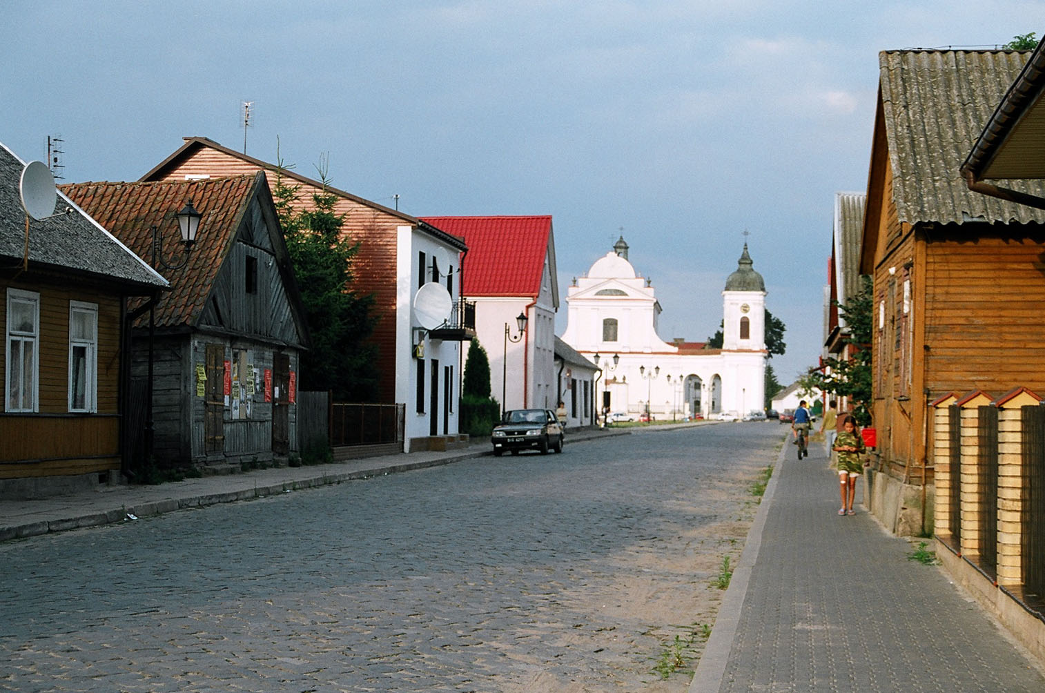 Tykocin, Złota Str. and church of the Holy Trinity